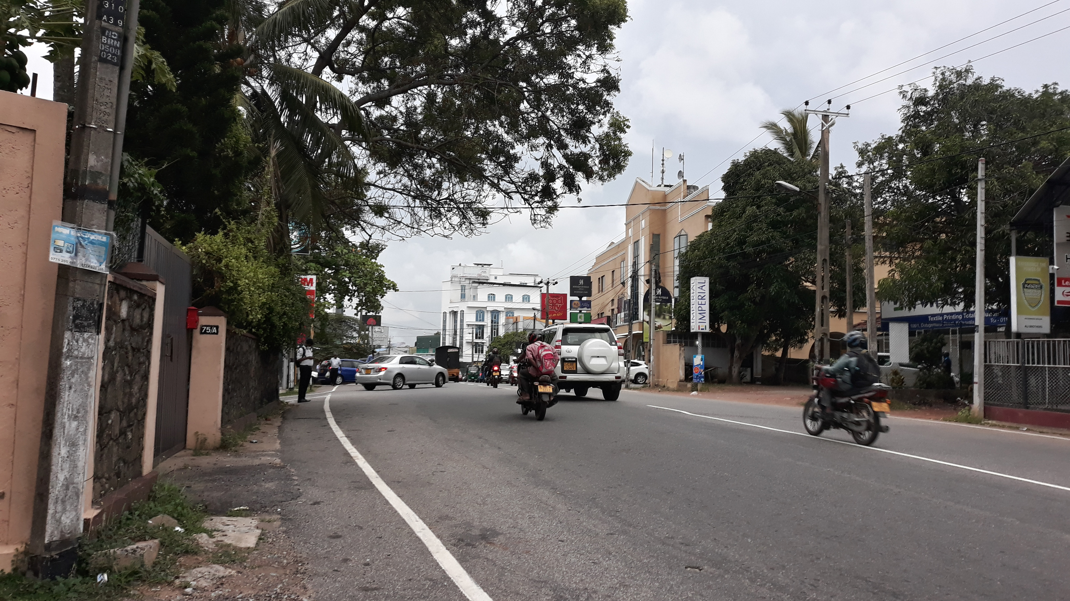 S De S. Jayasinghe Mawatha, Kohuwala (near)